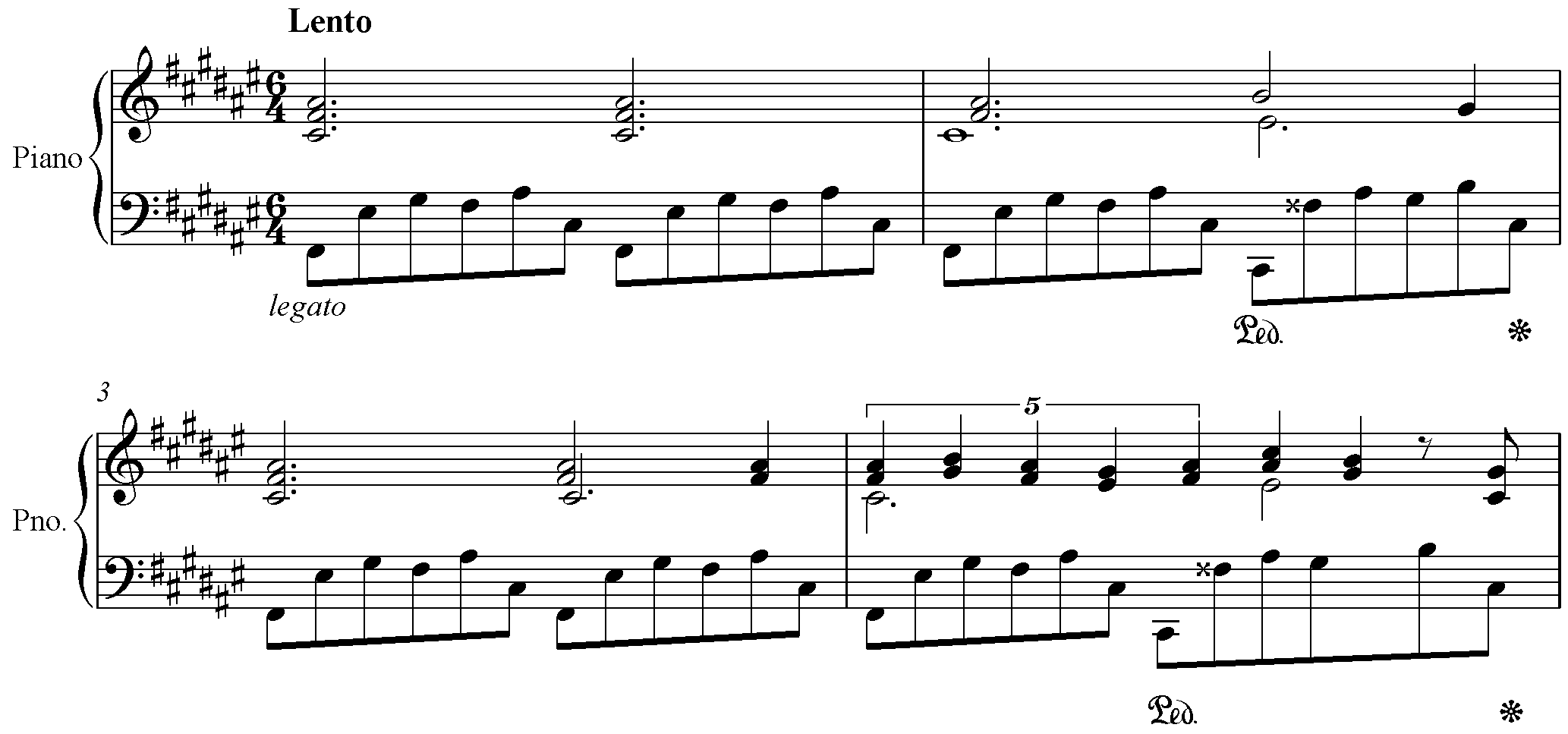 4 first bars of Chopins prelude 13 op. 28